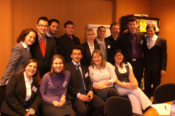 EPSA Team 2008-2009